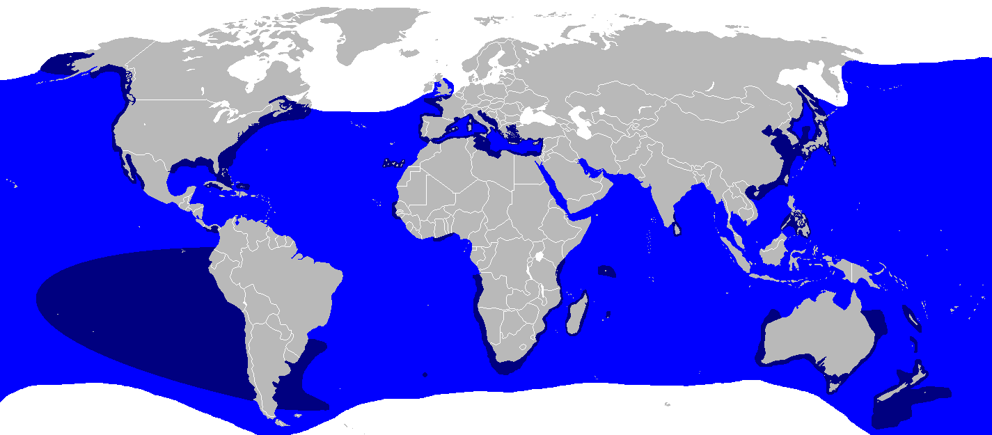 Carcharodon carcharias distmap based on "L. J. V. Compagno: Sharks of the world. An annotated and illustrated catalogue of shark species known to date. Volume 2. Bullhead, mackerel and carpet sharks (Heterodontformes, Lamniformes and Orectolobiformes). FAO Species Catalogue